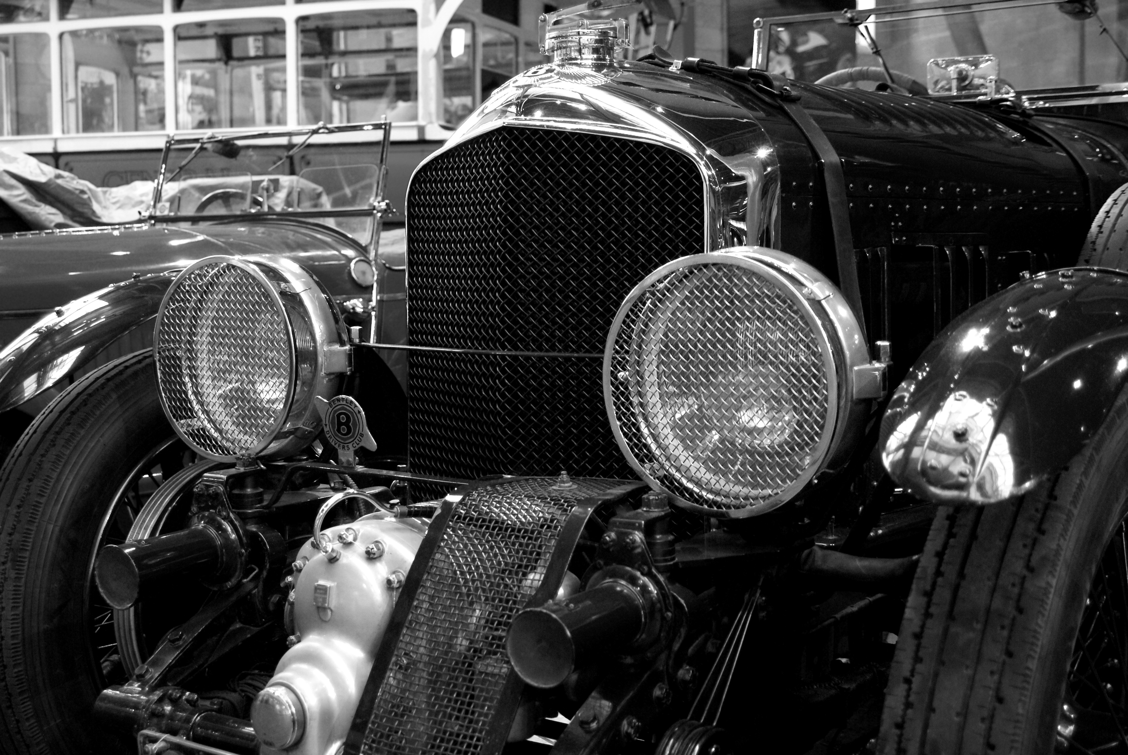 I took this photo myself, and release it into the public domain. It shows a supercharged Bentley from the Beaulieu Motor Museum. Chassis MS3946 Engine MS3948 Reg GY 3905 delivered August 1931